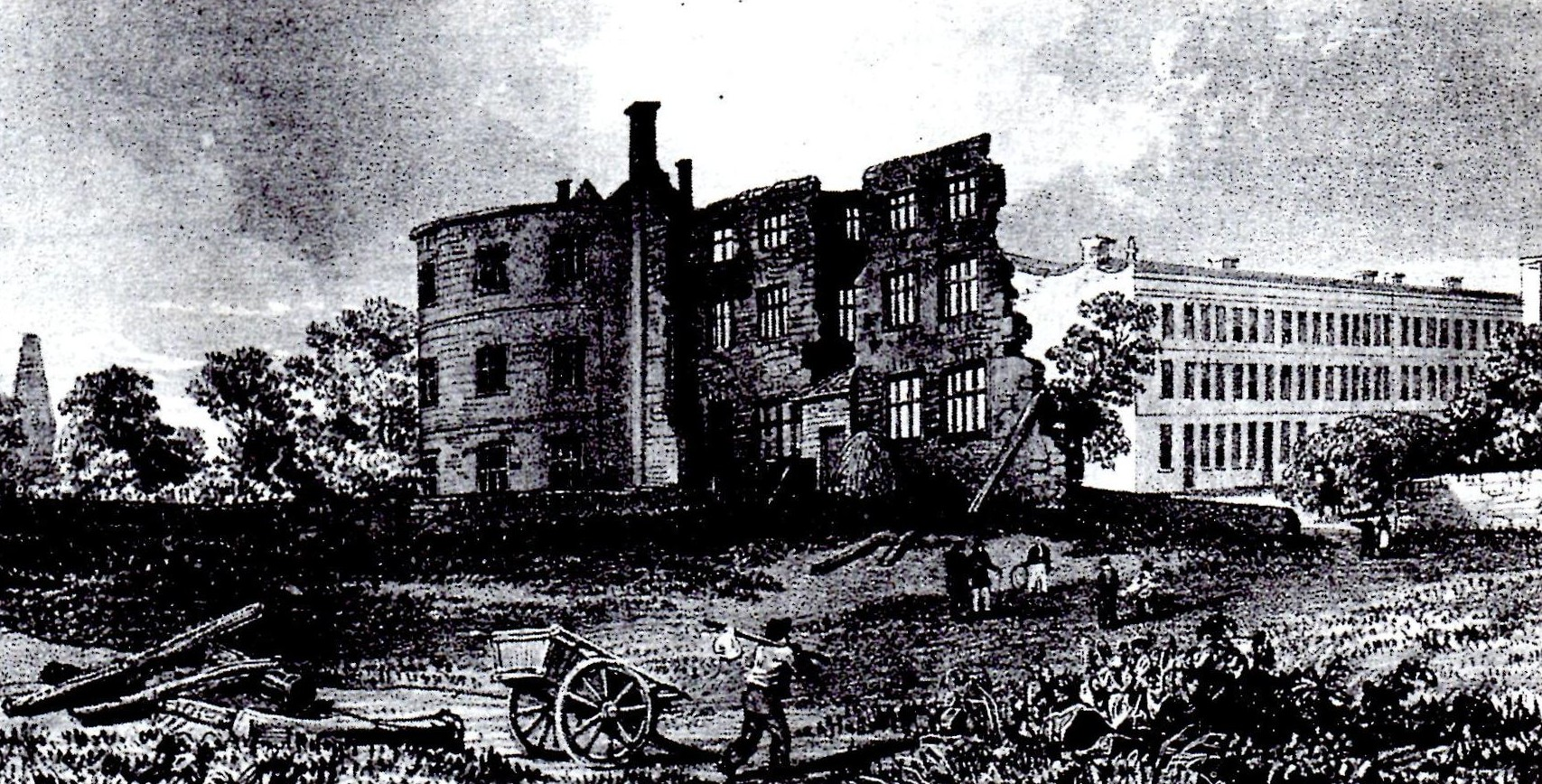 A lithograph made appx 1830 of am earlier painting made approx 1800, by John Chubb (artist), of the mansion built on the site of Bridgwater Castle, showing the last remaining part of the castle wall.